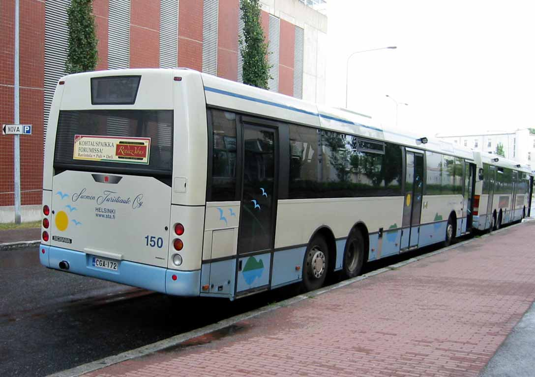 Suomen Turistiauto Oy 150